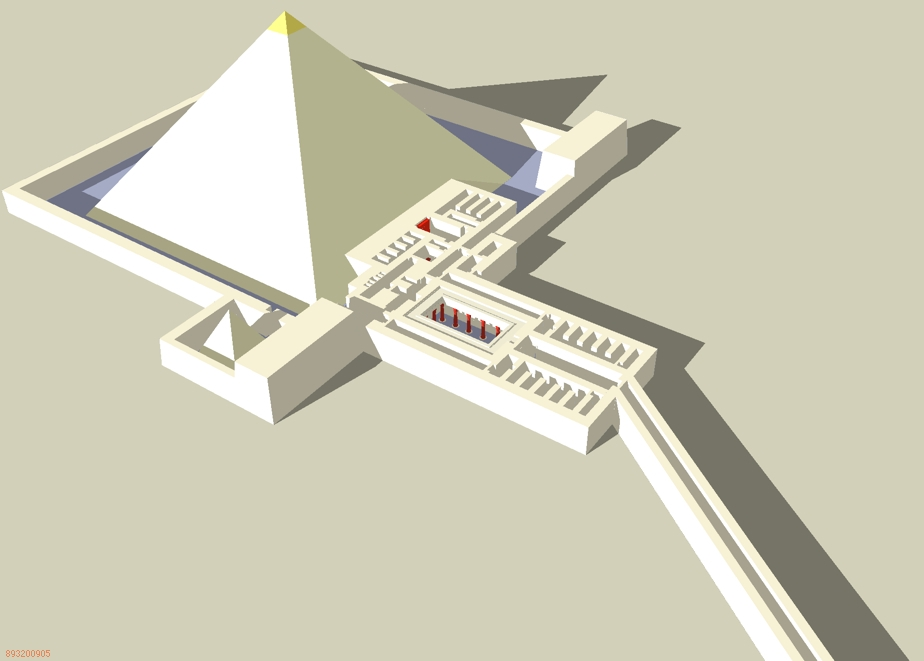 Restored view of Nyuserre's pyramid and funerary temple at Abusir - 5th dynasty of Egypt